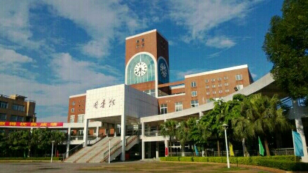 The library with 5 floors and a large self-learning room, near the school gate and administrative buildings. It is a representative building of Guangdong Jiangmen NO.1 Middle School for students to study and read books.